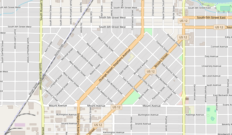 2013 map of Missoula, Montana's slant streets This map of Missoula, Montana was created from OpenStreetMap project data, collected by the community. This map may be incomplete, and may contain errors. Don't rely solely on it for navigation.